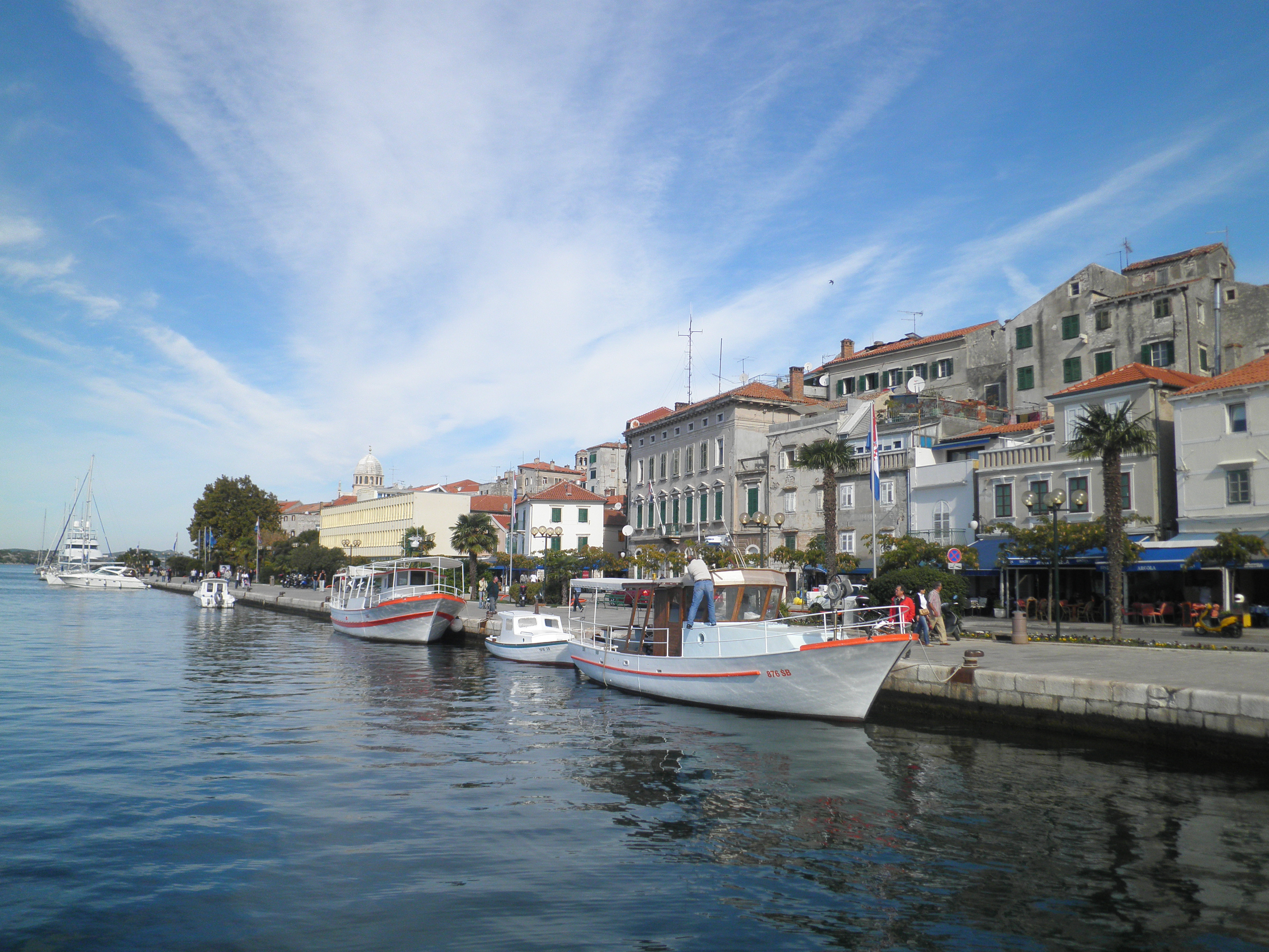 Šibenik, Croatia